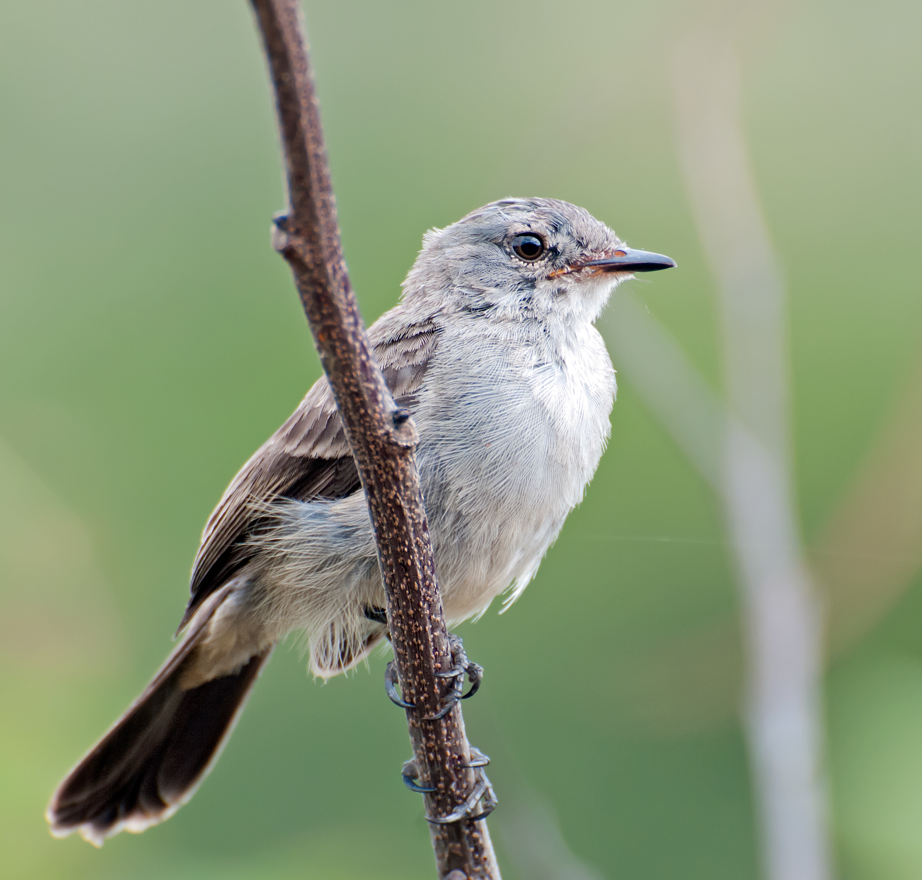 A Sooty Tyrannulet in Rio Paranapanema, Piraju, São Paulo, Brazil.